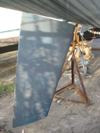 Author: Drew Lambert, 2006